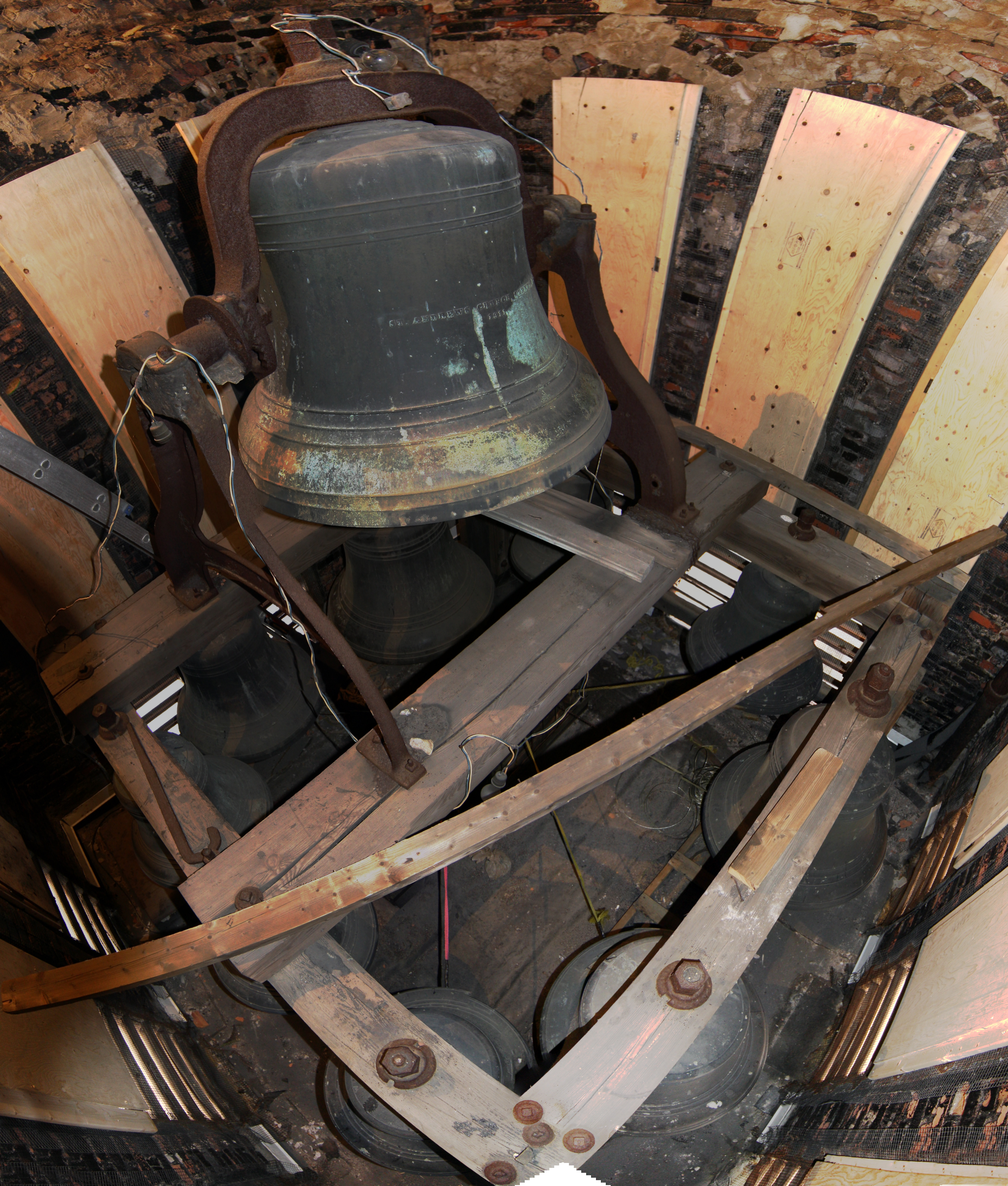 This is a very wide angled image of the the ten bells that make up the Highland Arts Theatre Chime. It shows them as they are mounted in their chimeframe in the Bell Chamber of the south bell tower of the Highland Arts Theatre. There is considerable distortion, especially of the Tenor Bell mounted on the top of the chimeframe, due to the wide angle nature of the lens used to make the photograph. The Highland Arts Theatre Chime is a bell chime in the Highland Arts Theatre in Sydney, Cape Breton Regional Municipality, Nova Scotia, Canada. It consists of ten bells located in the south bell tower that are is still in use today. The bells are arranged as a traditional chime of 10 bells and are played from the ringing room immediately below the Bell Chamber in the bell tower using the original unmodified McShane "pump handle" chimestand with deep key-fall on all notes. Nine of the bells are hung fixed in position in the main chime frame in the belfry, the tenth, the heaviest bell, is mounted in a rotary iron yoke on iron stands above the main chime frame. This bell, the tenor bell, is equipped with both a spring clapper and a tolling hammer so can be played either by swing chiming or by using the chimestand. All the bells have the foundry's name cast onto their waist. The nine smaller bells are also decorated with inscriptions, quotes from Psalms from the King James Version of the Bible, cast onto their waist, while the largest bell's inscription reads "St. Andrews Church, Sydney NS". This largest bell weighs about 2,050 lb (930 kg) and its pitch is E in the middle octave. The chime is attuned to concert pitch, to the eight notes of the octave or diatonic scale with two bells added, one bell a semitone, a flat seventh, and one bell, the treble bell, above the octave. This smallest bell, at about 500 lb (230 kg), rings an F♯.